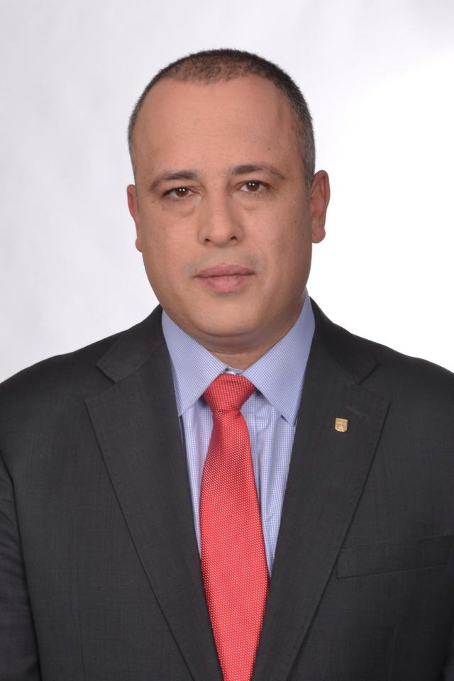 MK Hilik Bar offiial 2015 image